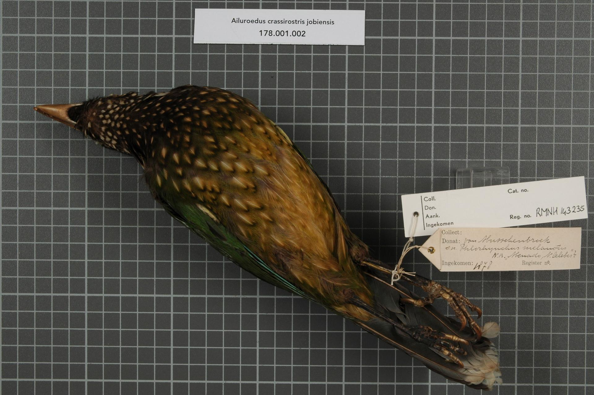 Ailuroedus crassirostris jobiensis Rothschild, 1895